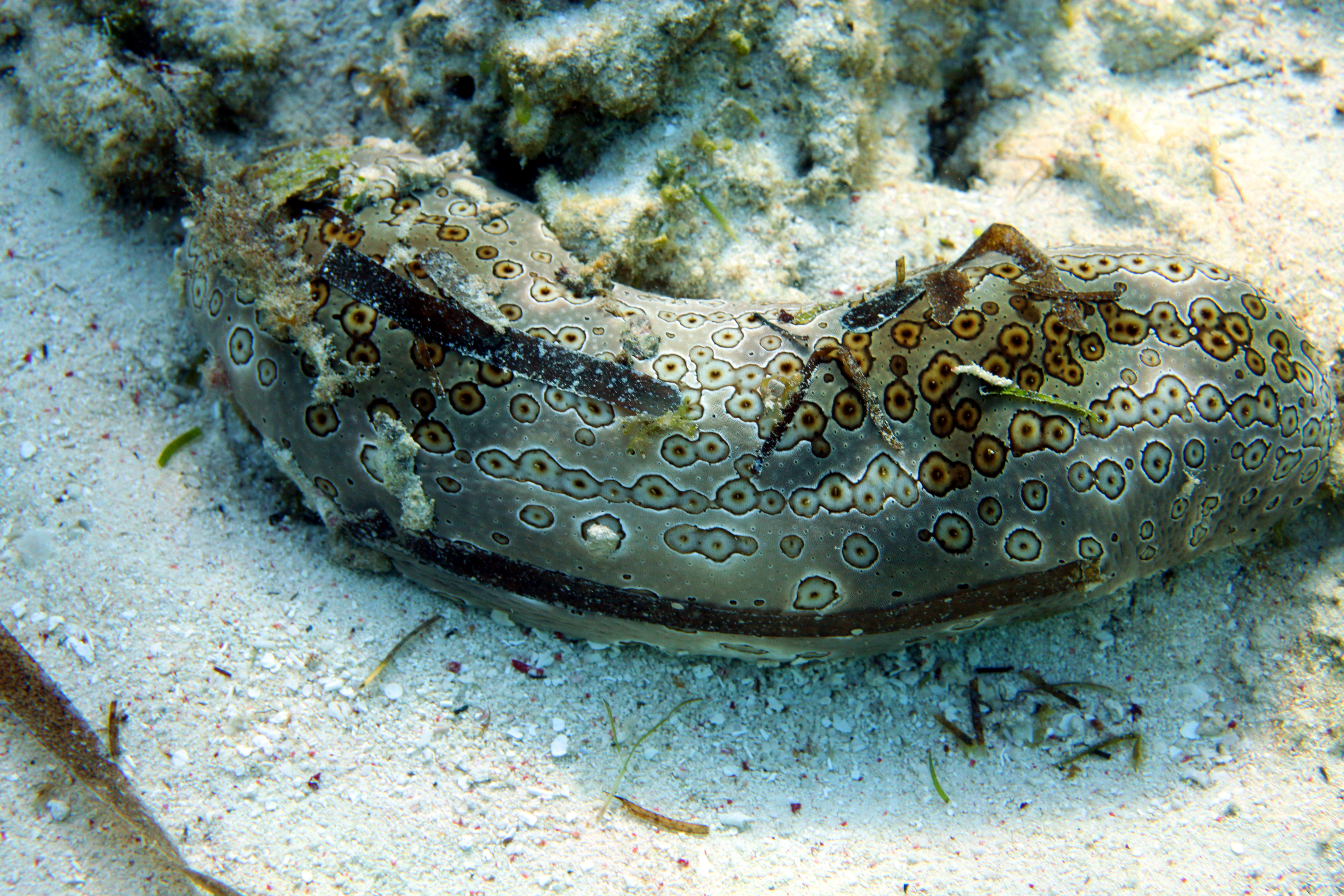 A colorful unidentified sea cucumber seen in Balicasag island, Philippines.